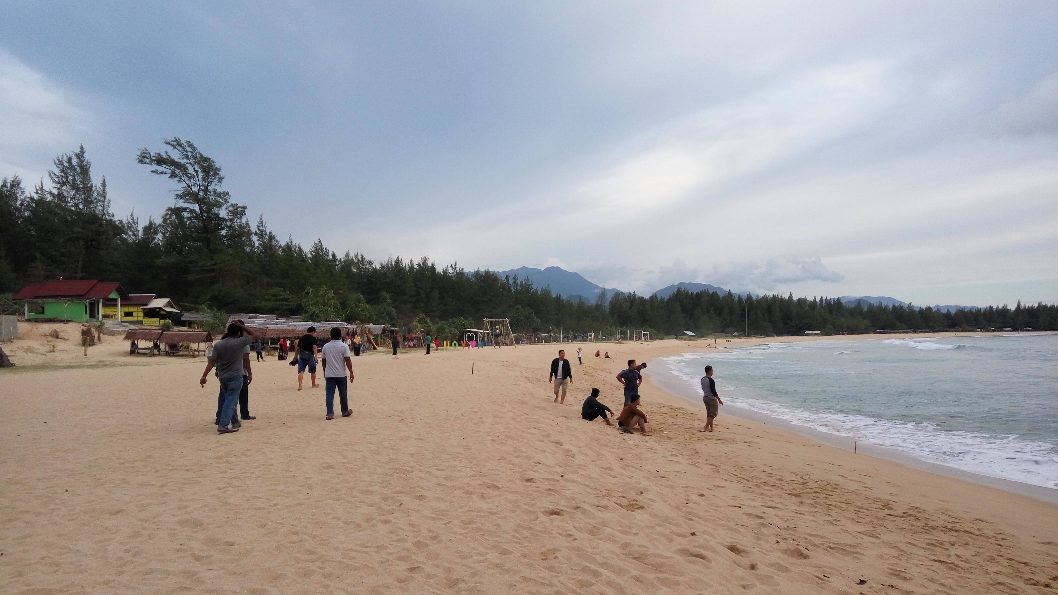 Lampuuk Beach in Aceh